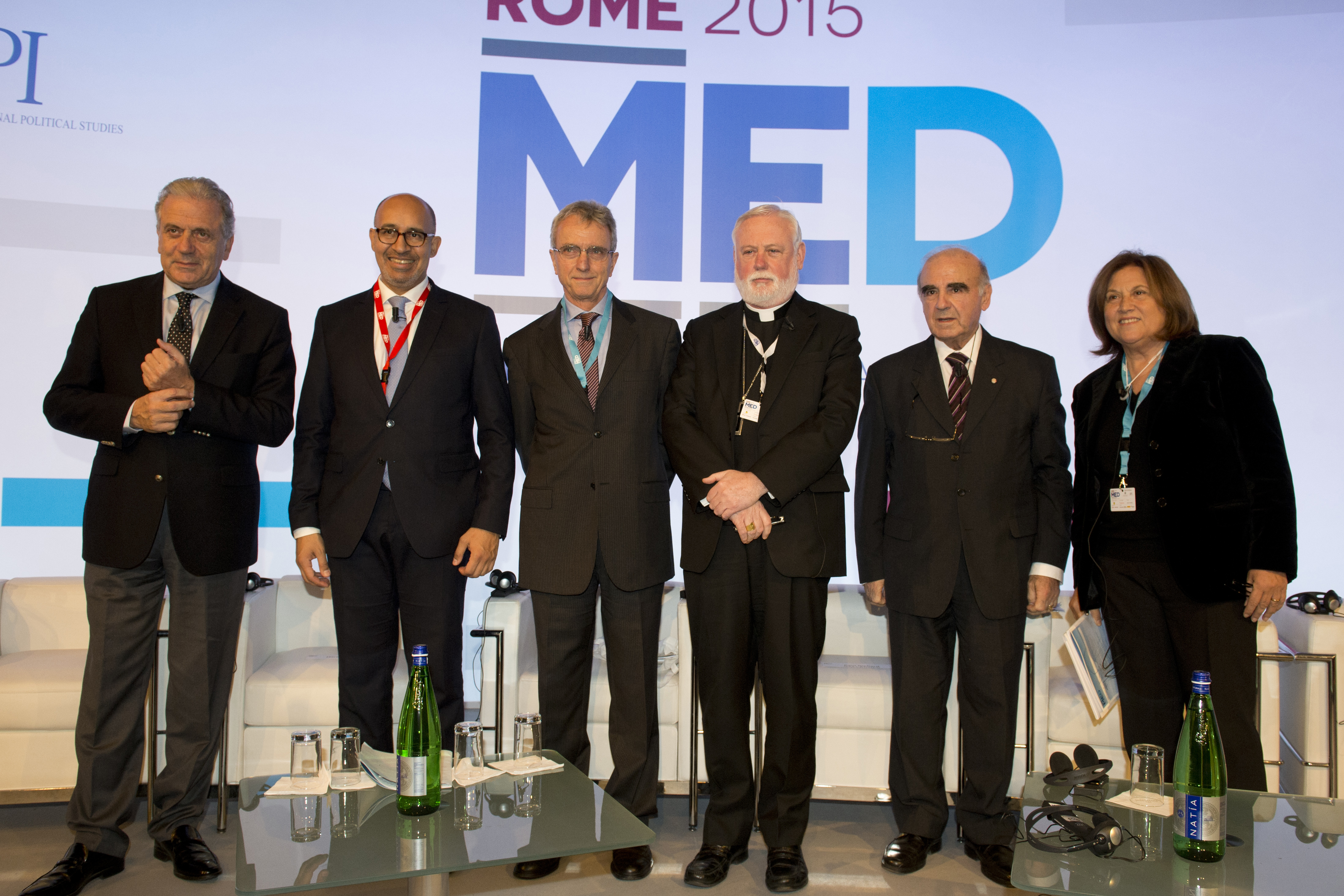 (L-R) Commissioner for Migration Home Affairs and Citizenship, Dimitris Avramopoulos, France minister of state for euopean affairs Harlem Desir, Director Migration Policy Cente European Institute in Florence Philippe Fargues, Secretary for Relations Paul Richard Gallagher, Minister of foreign Affairs of Republic of Malta George Vella and Italian Journalist Lucia Annunziata pose for photographers before a meeting Mediterranean Dialogues in Rome on 11 December 2015.